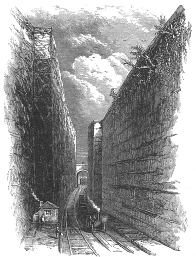 An etching of Olive Mount Cutting on the Liverpool & Manchester Railway